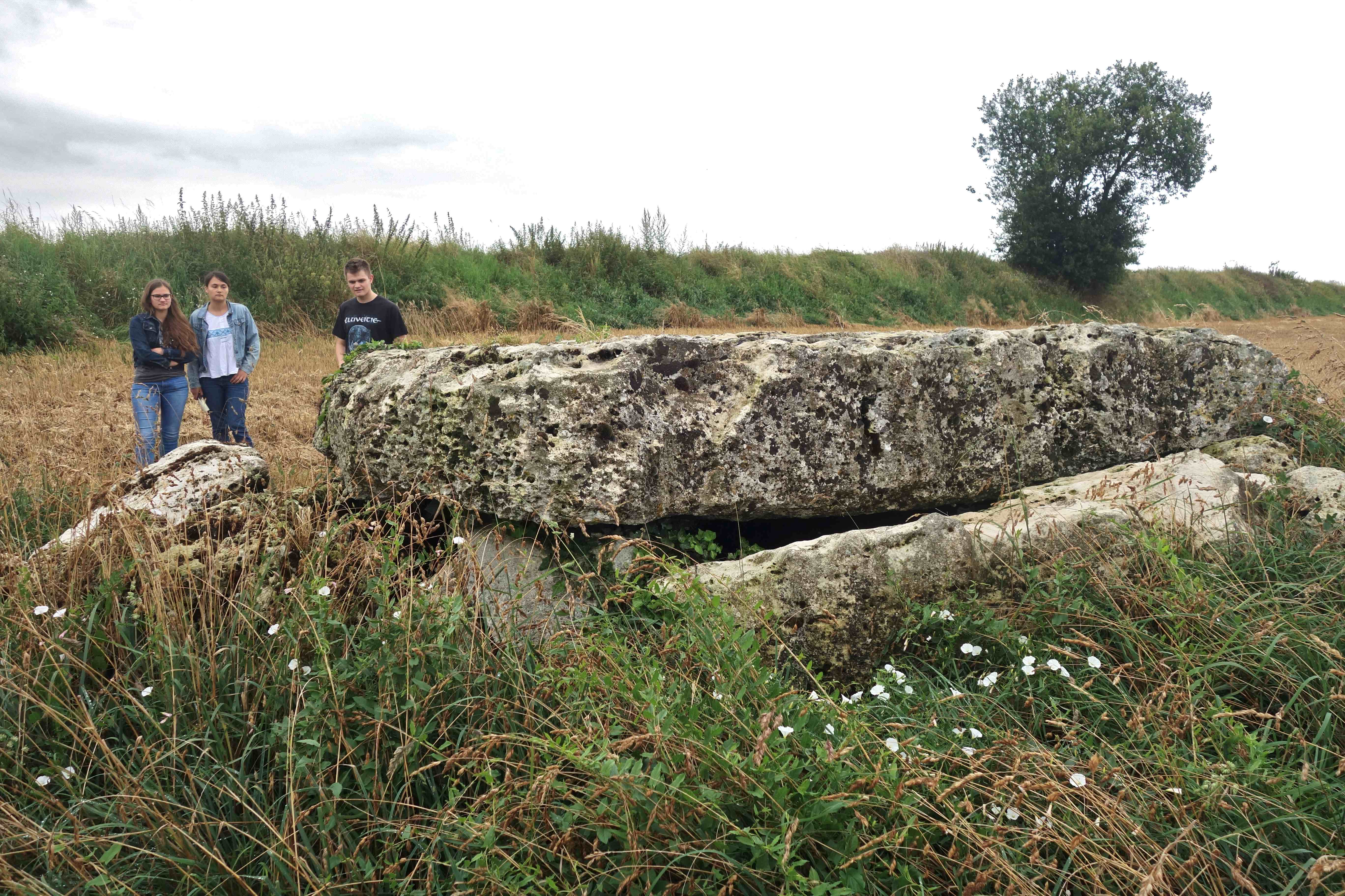 Dolmen de la Pierre Laye, Prehistoric Dolmen from Picardy, France